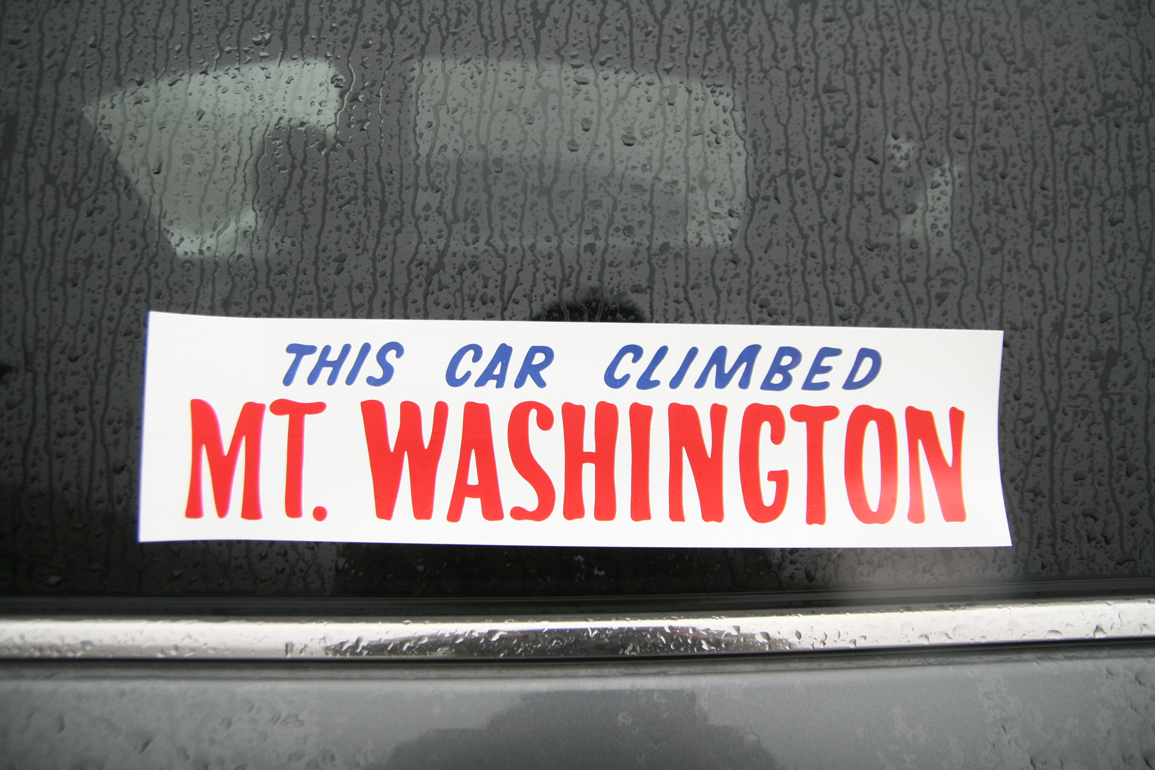 Mount Washington Bumper sticker provided part of toll for using Mount Washington Auto Road